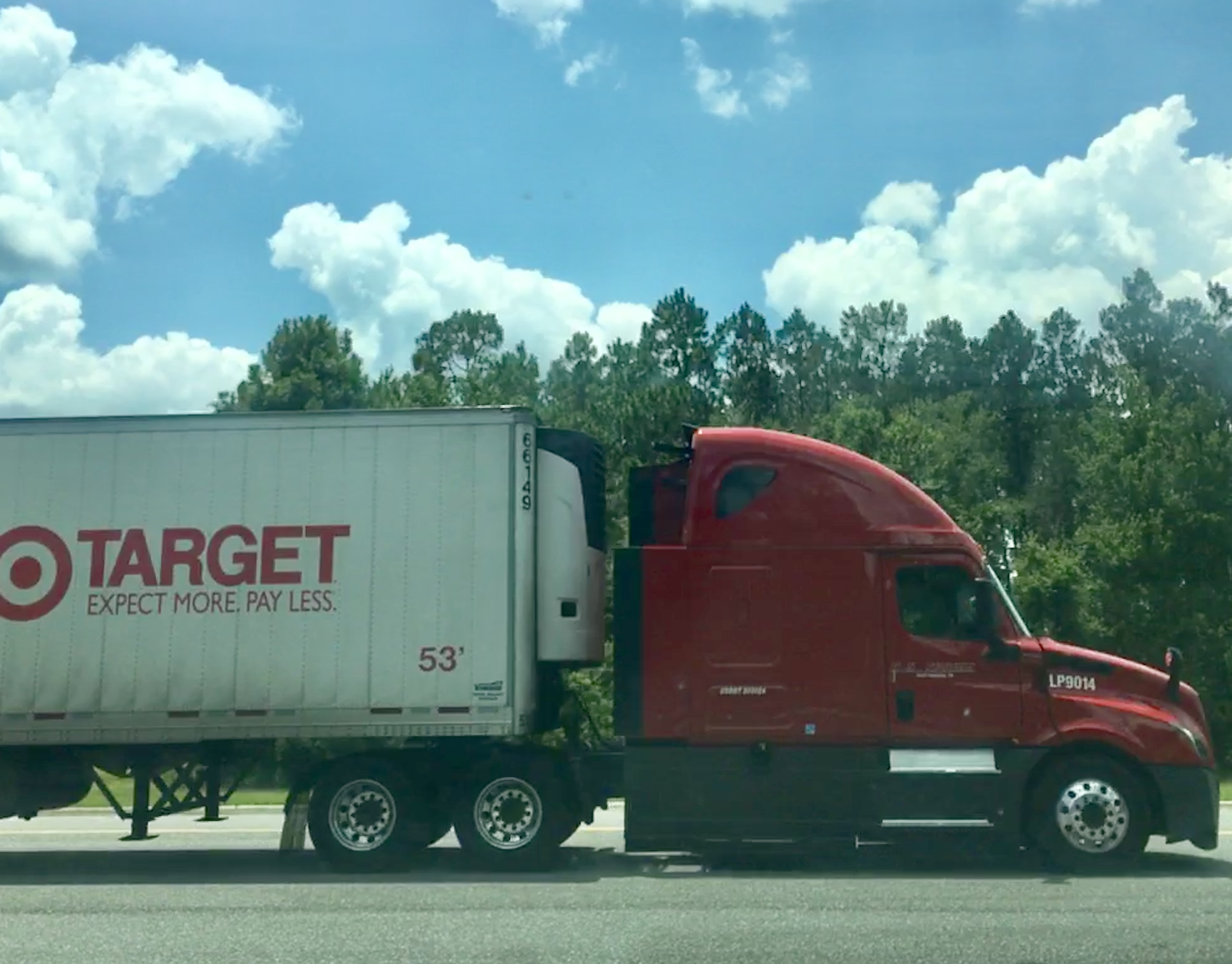 Target trailer and semi-truck